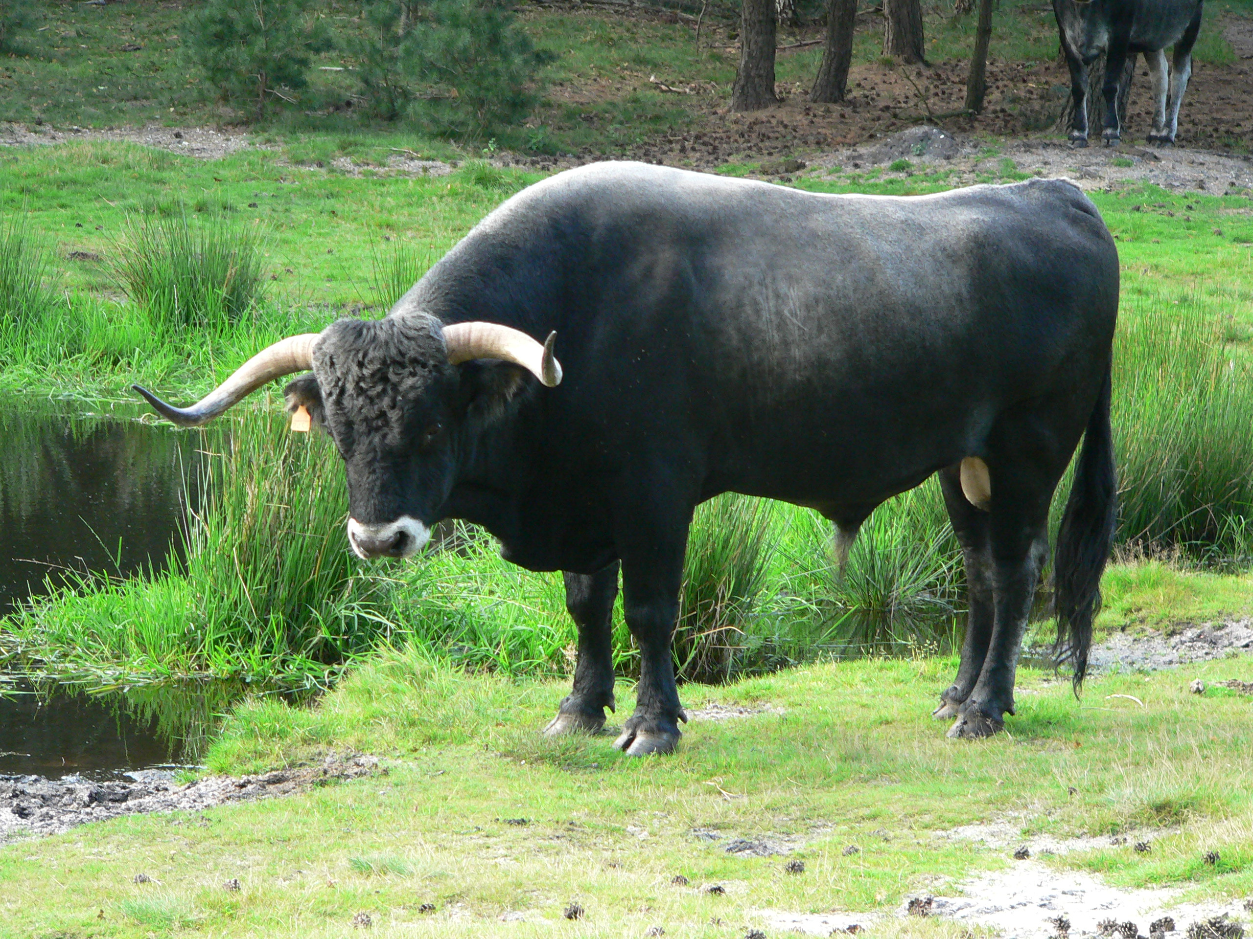 Tudanca were recently imported to the Netherlands to make the heathland more diversified and prevent grass and trees becoming the dominant flora.